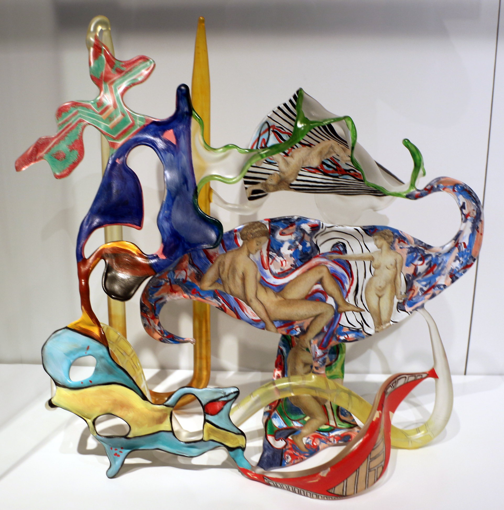 Glassware in the Indianapolis Museum of Art